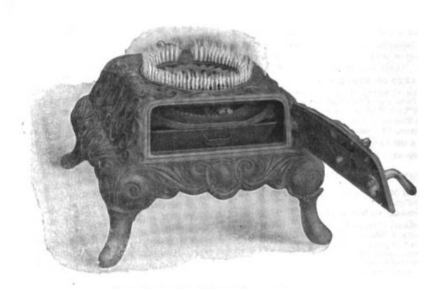 Heater stove made by the Michigan Stove Company